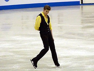 Jeffrey Buttle at the 2003 NHK Trophy.